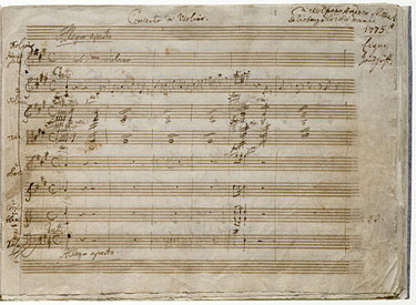 Page from Mozart's Violin Concerto No. 5